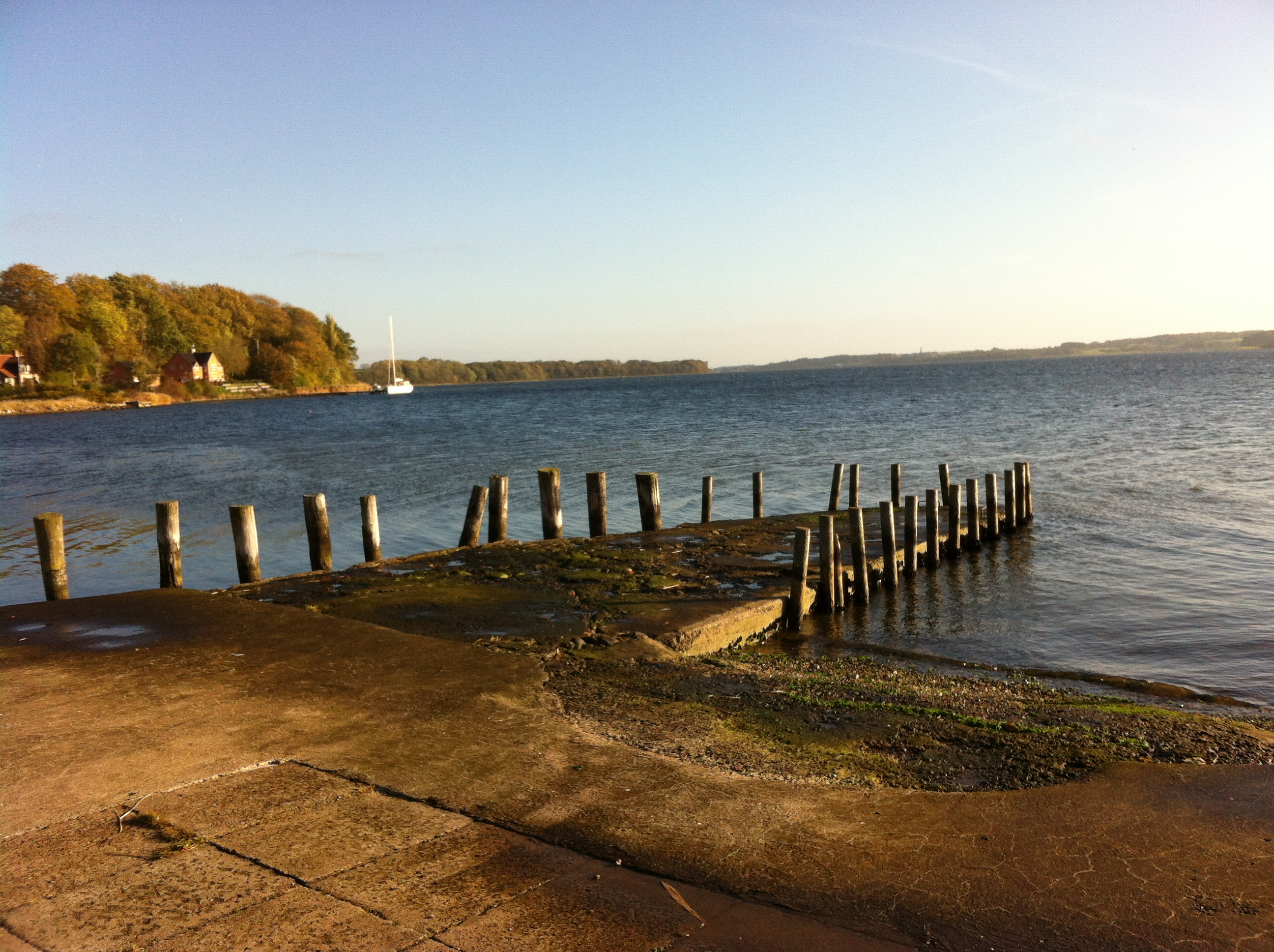 Stinesminde Fjord harbour